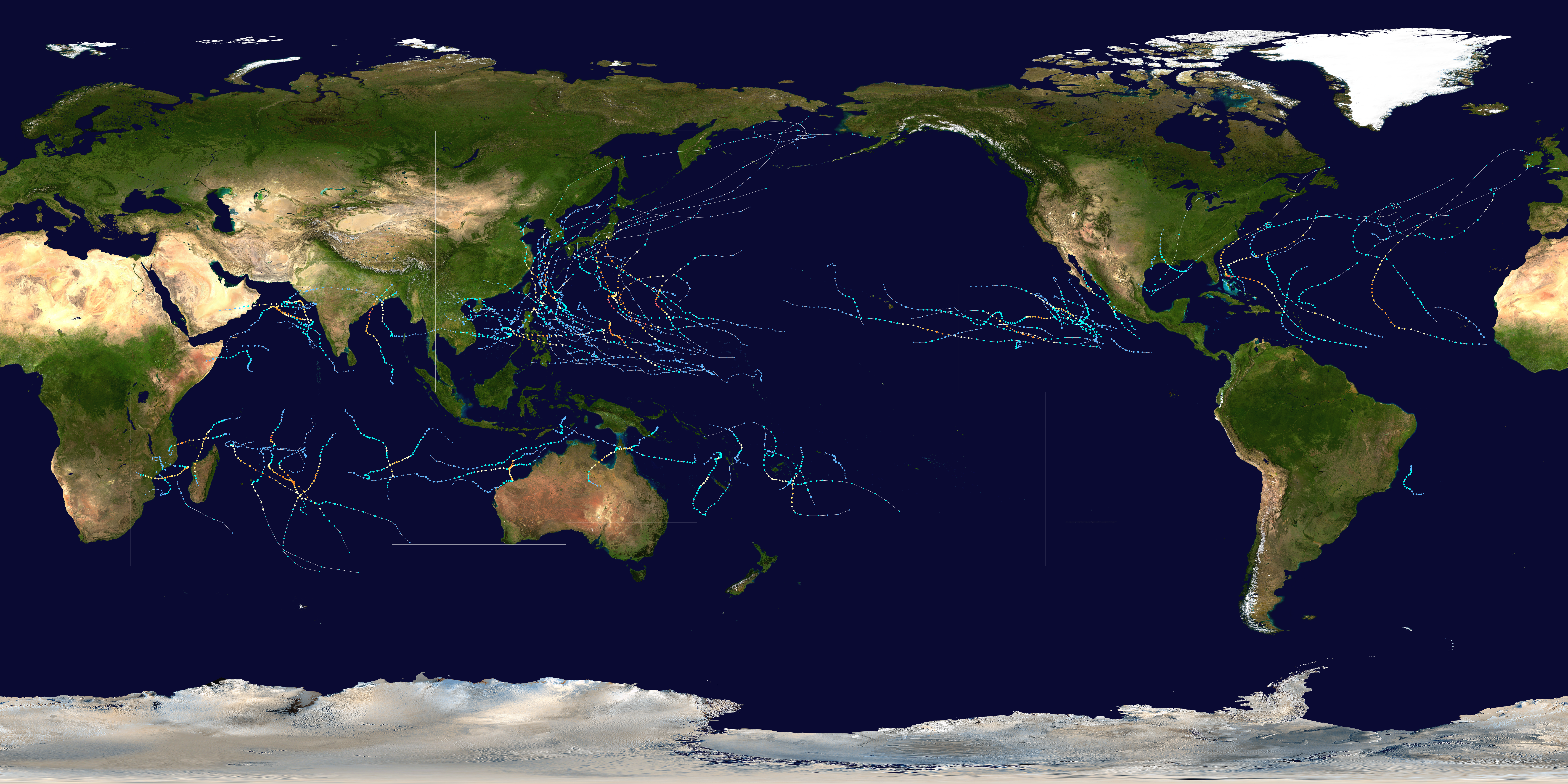 Tropical cyclones worldwide in 2019